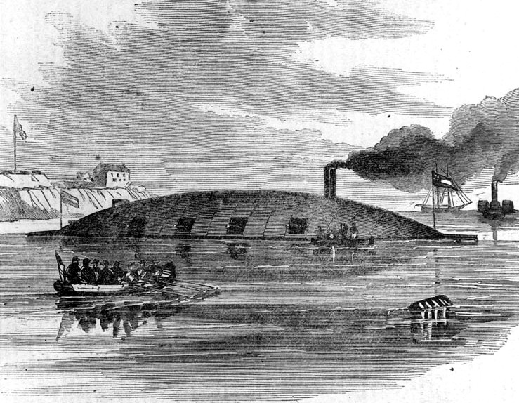 CSS Savannah